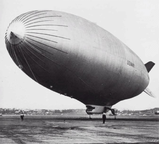 A U.S. Navy N-class ZPG-3W early warning blimp of airship airborne early warning squadron ZW-1 at Naval Air Station Lakehurst, New Jersey (USA), circa 1960. ZW-1 operated four ZPG-3W from 1959 to 1961. Shortly before decommissioning on 31 October 1961 the squadron was redesignated airship patrol squadron ZP-1 on 3 February 1961.